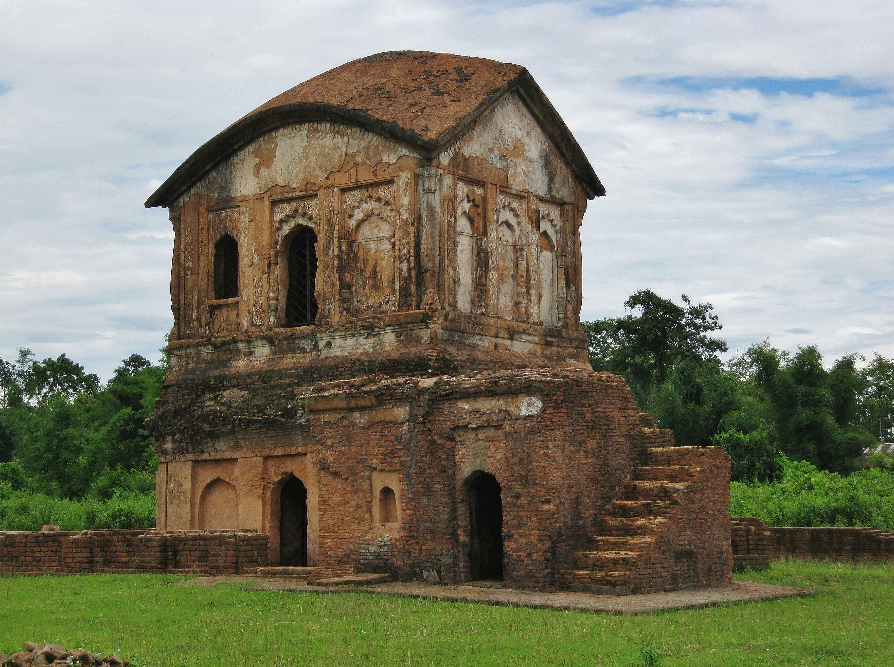 this is the largest of the buildings in the area. Local people believe it to be the palace of the ruler. The architecture is quite rudimentary and the average height of the ceiling is quite low. It is the only double-storied building among the ruins. The staircase to the upper floor still exist on the right